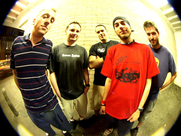 band photo